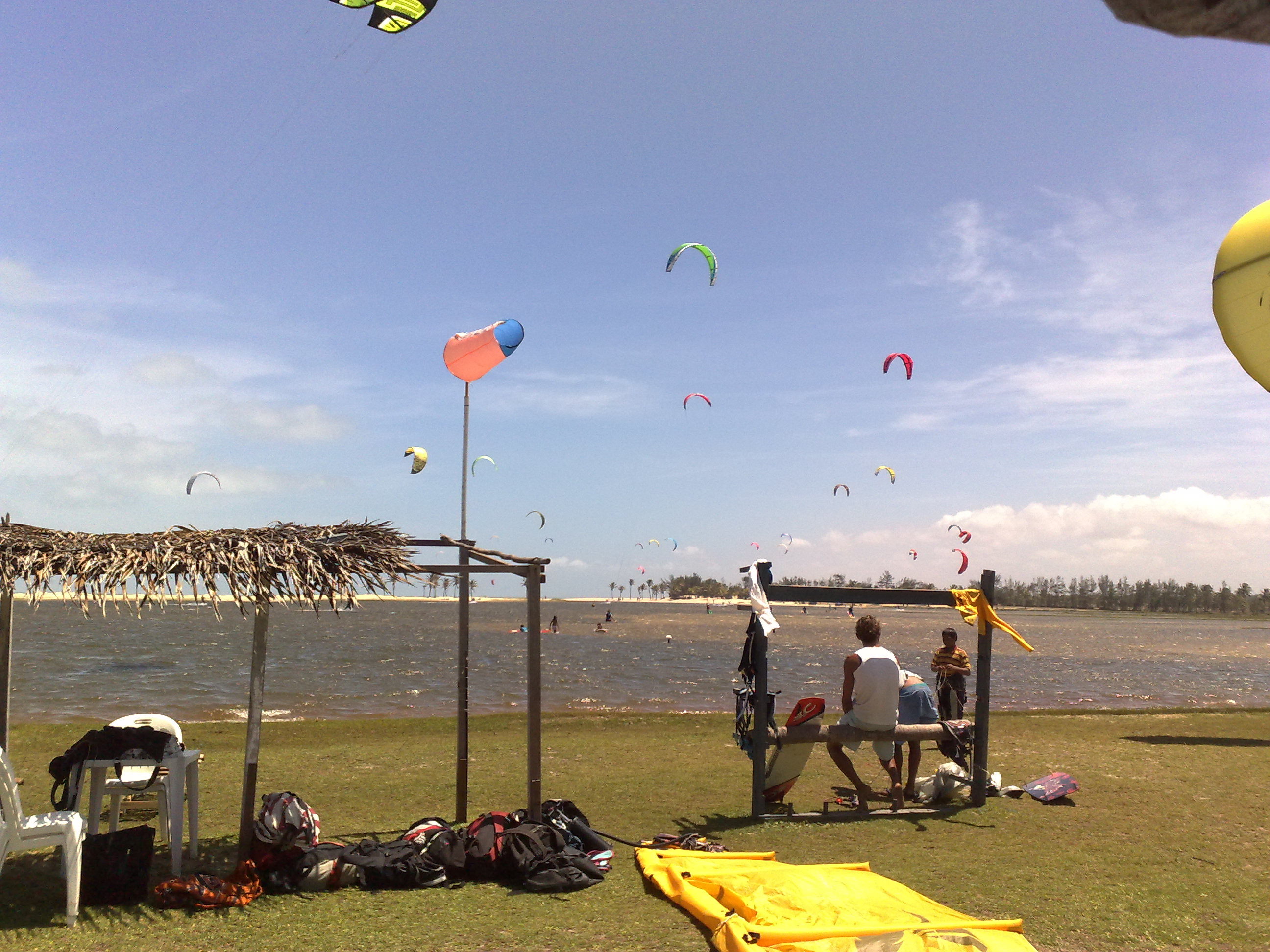 Kitesurfing at Cauipe Laguna (30 miles from Fortaleza, CE